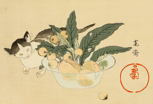 "Cat and Fruit"